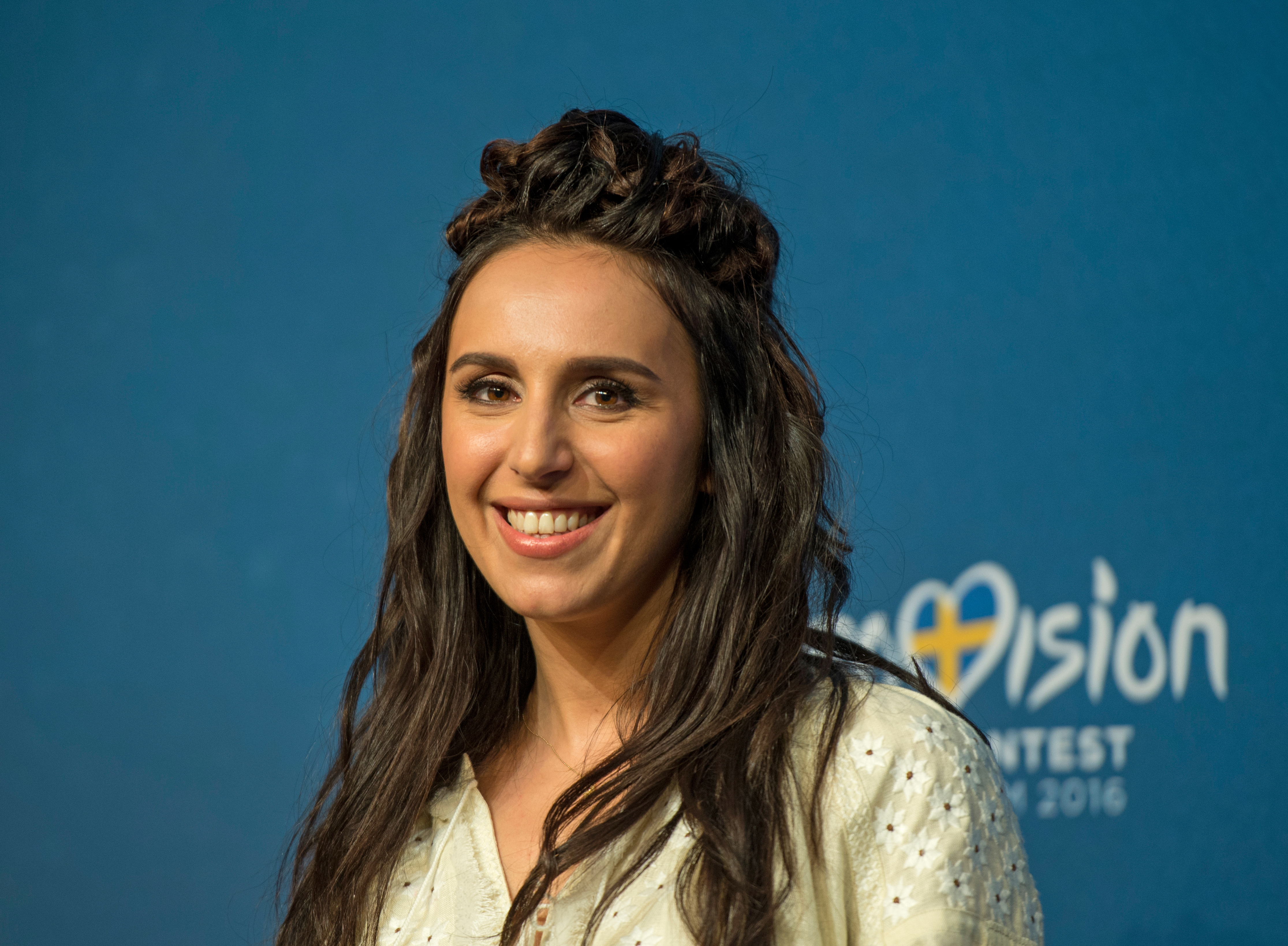 Jamala at a Meet & Greet during the Eurovision Song Contest 2016 in Stockholm. (Help translate this text)